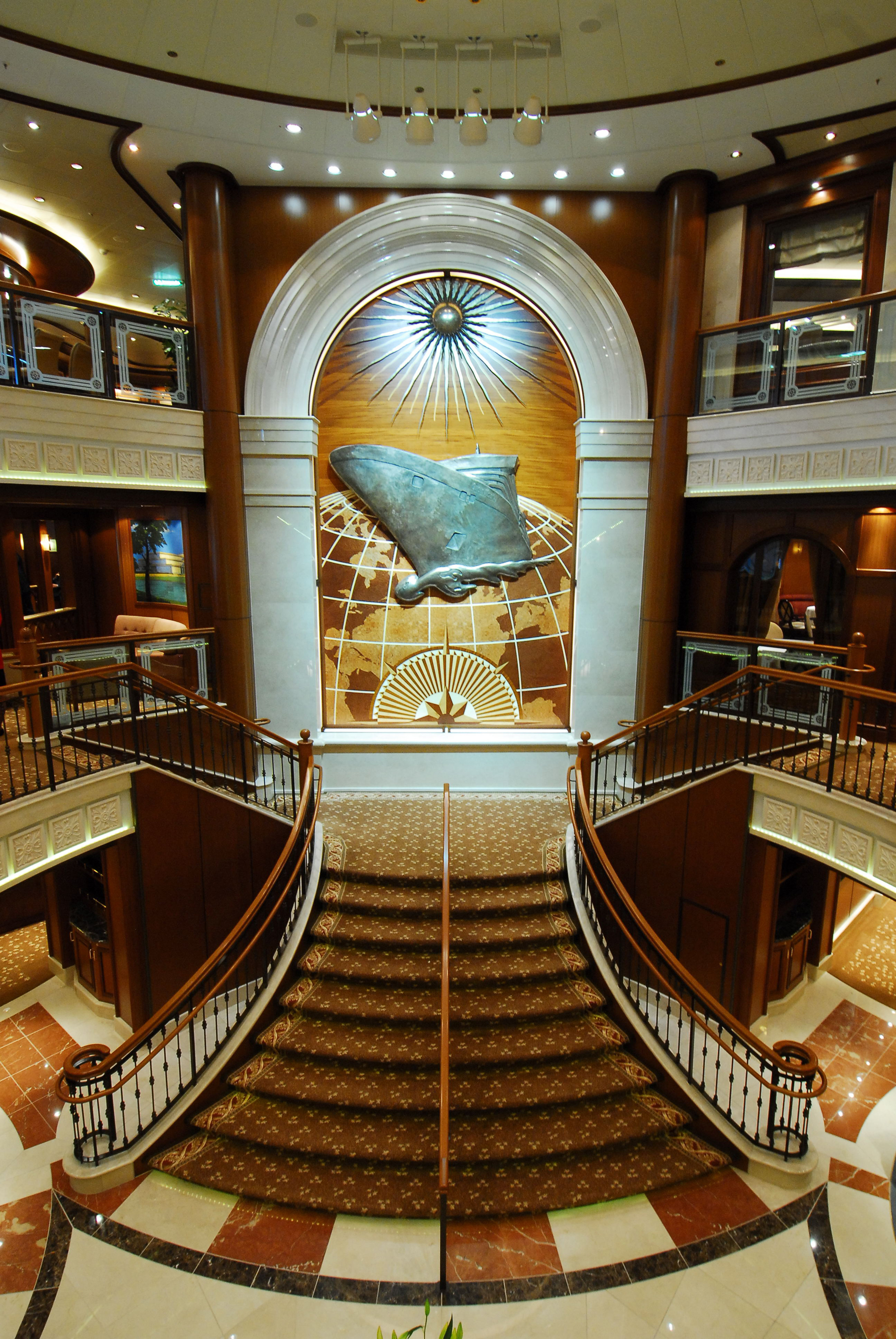 Queen Victoria Ship artwork in the Grand lobby stairwell, design by John McKenna